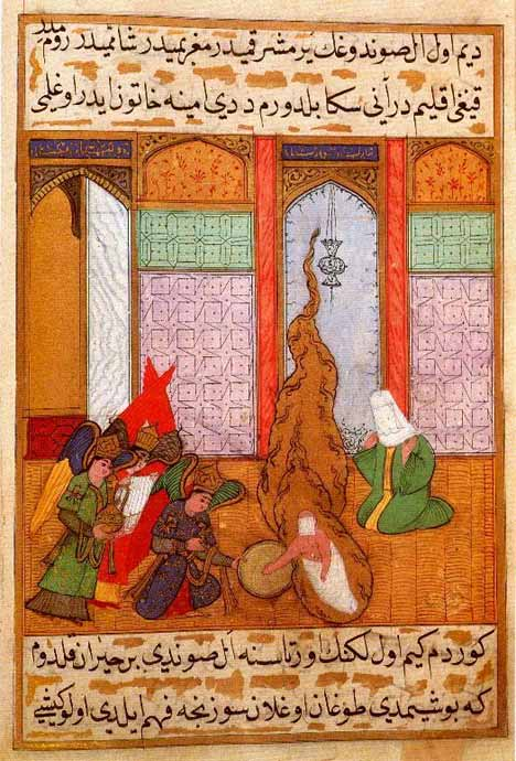 The birth of Mohammad. Ottoman miniature painting from the Siyer-ı Nebi, kept at the Topkapı Sarayı Müzesi, Istanbul (Inv. 1221/223b)